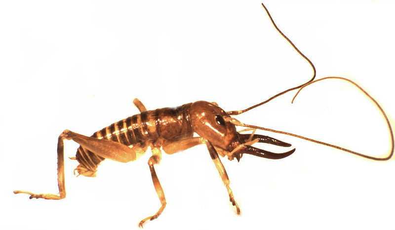 adult male Anisoura nicobarica